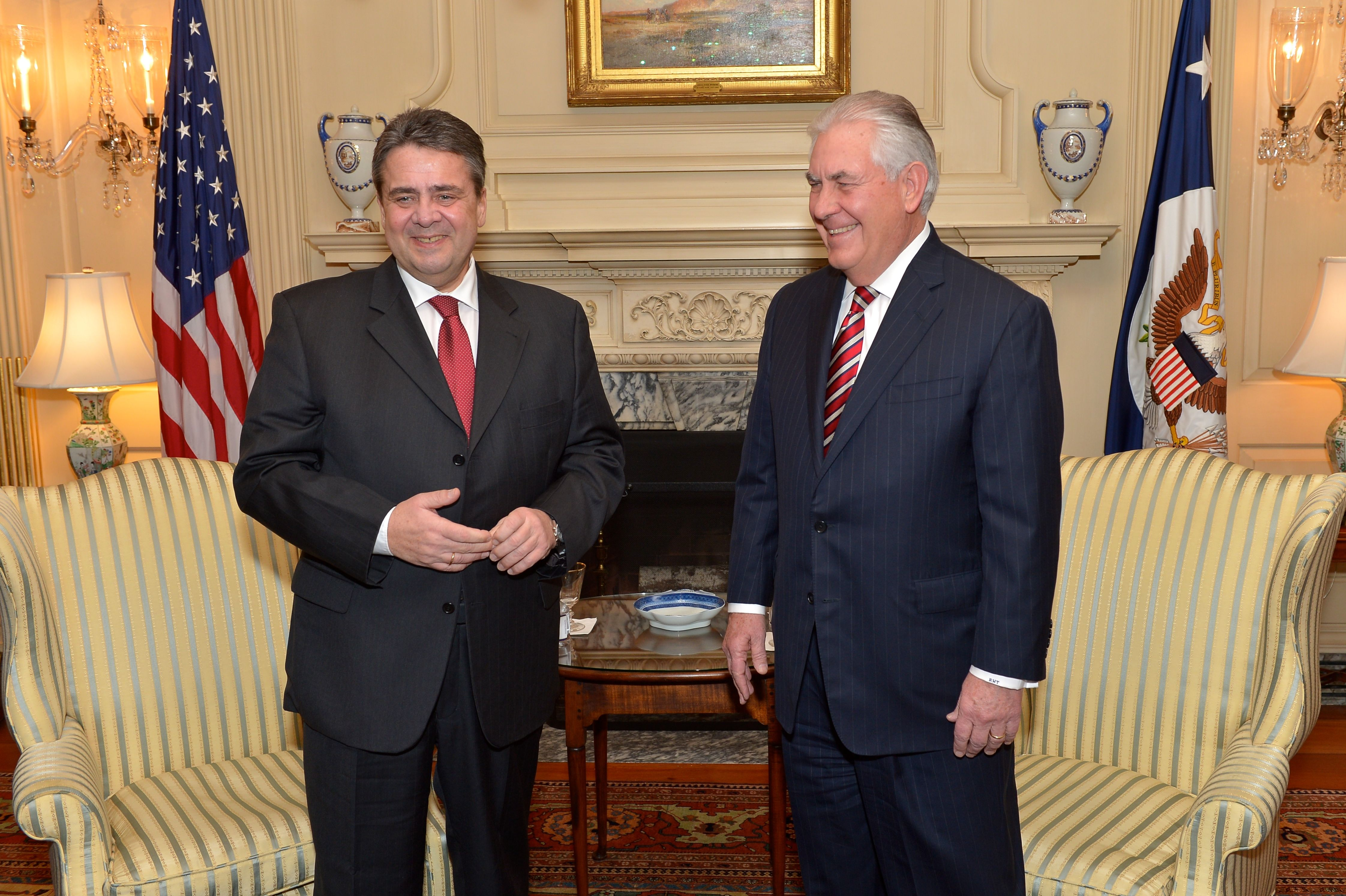 U.S. Secretary of State Rex Tillerson and German Foreign Minister Sigmar Gabriel share a laugh before their bilateral meeting at the U.S. Department of State in Washington, D.C., on February 2, 2017. [State Department photo/ Public Domain]